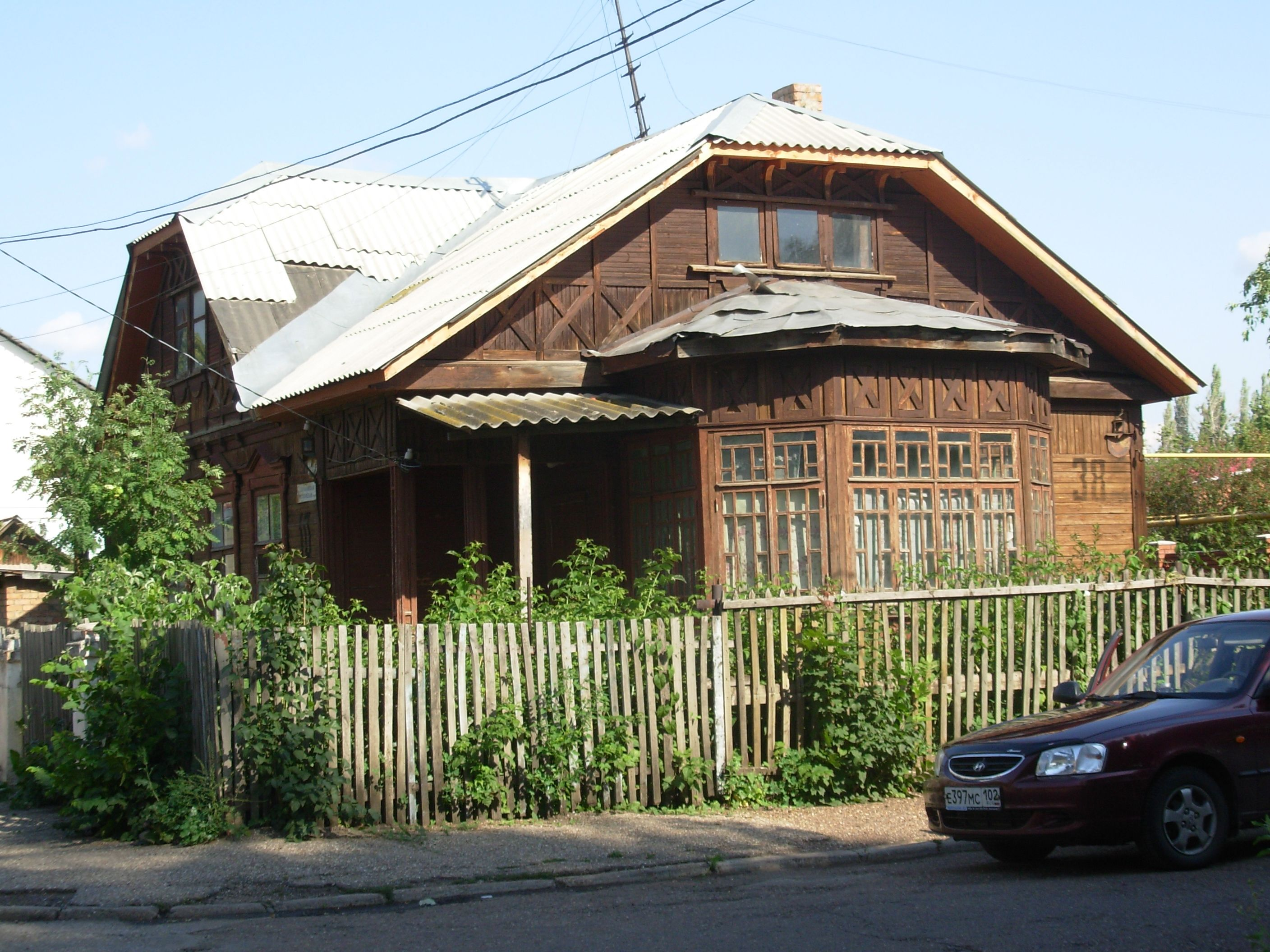 street